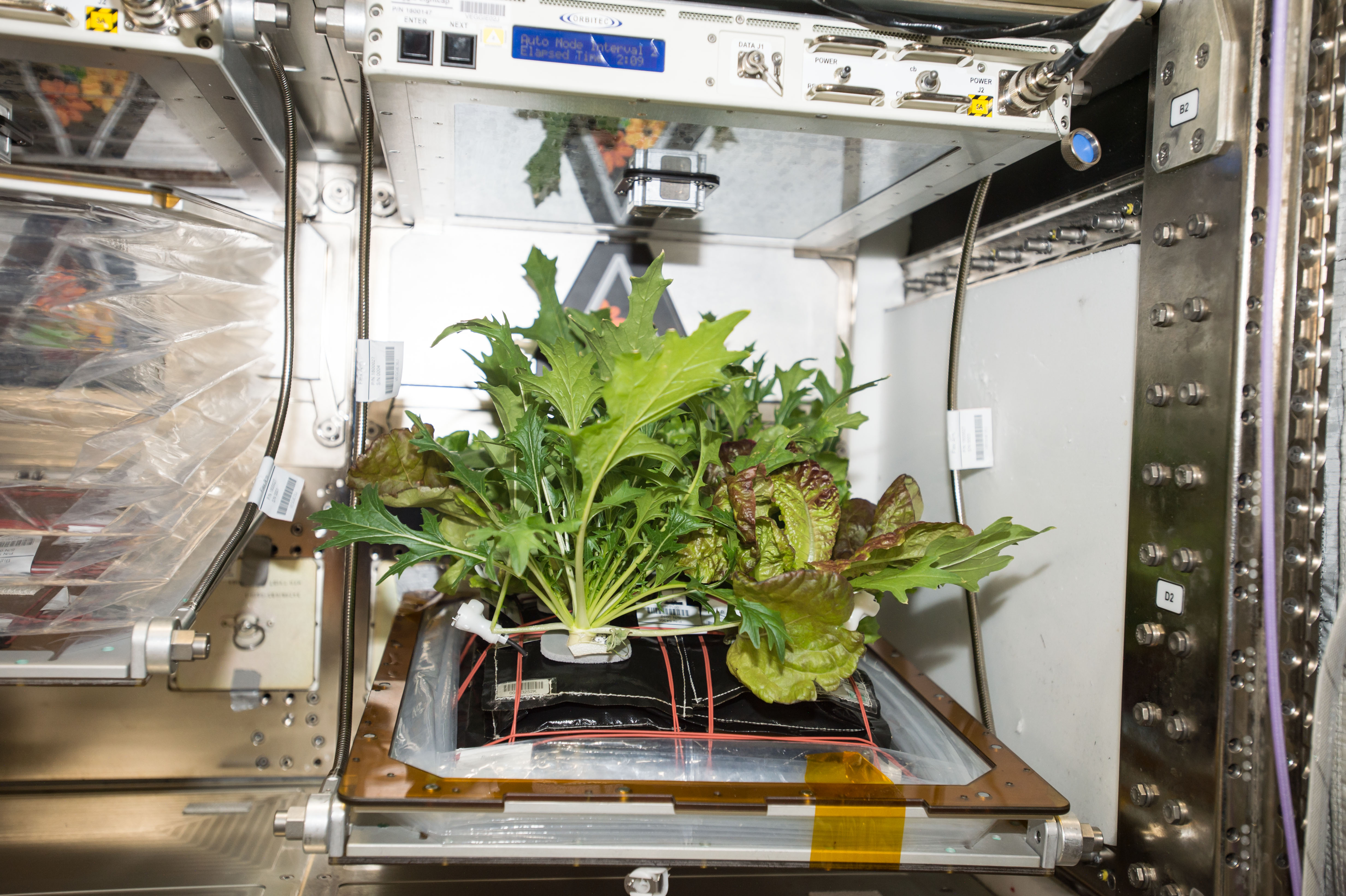 Harvest of veggies on the ISS